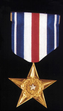 This is a picture of a sliver star. It is an image; I converted to PNG and cropped. It is public domain; I originally downloaded it from